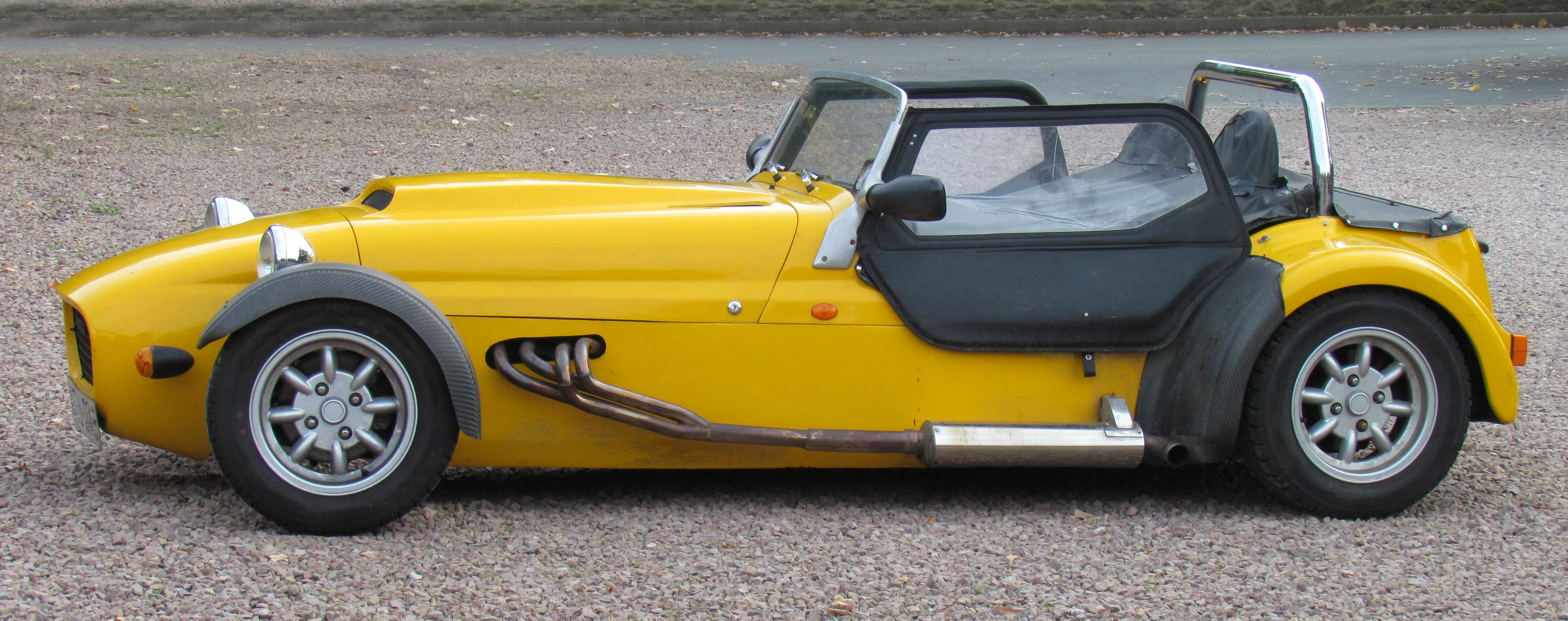 Caterham